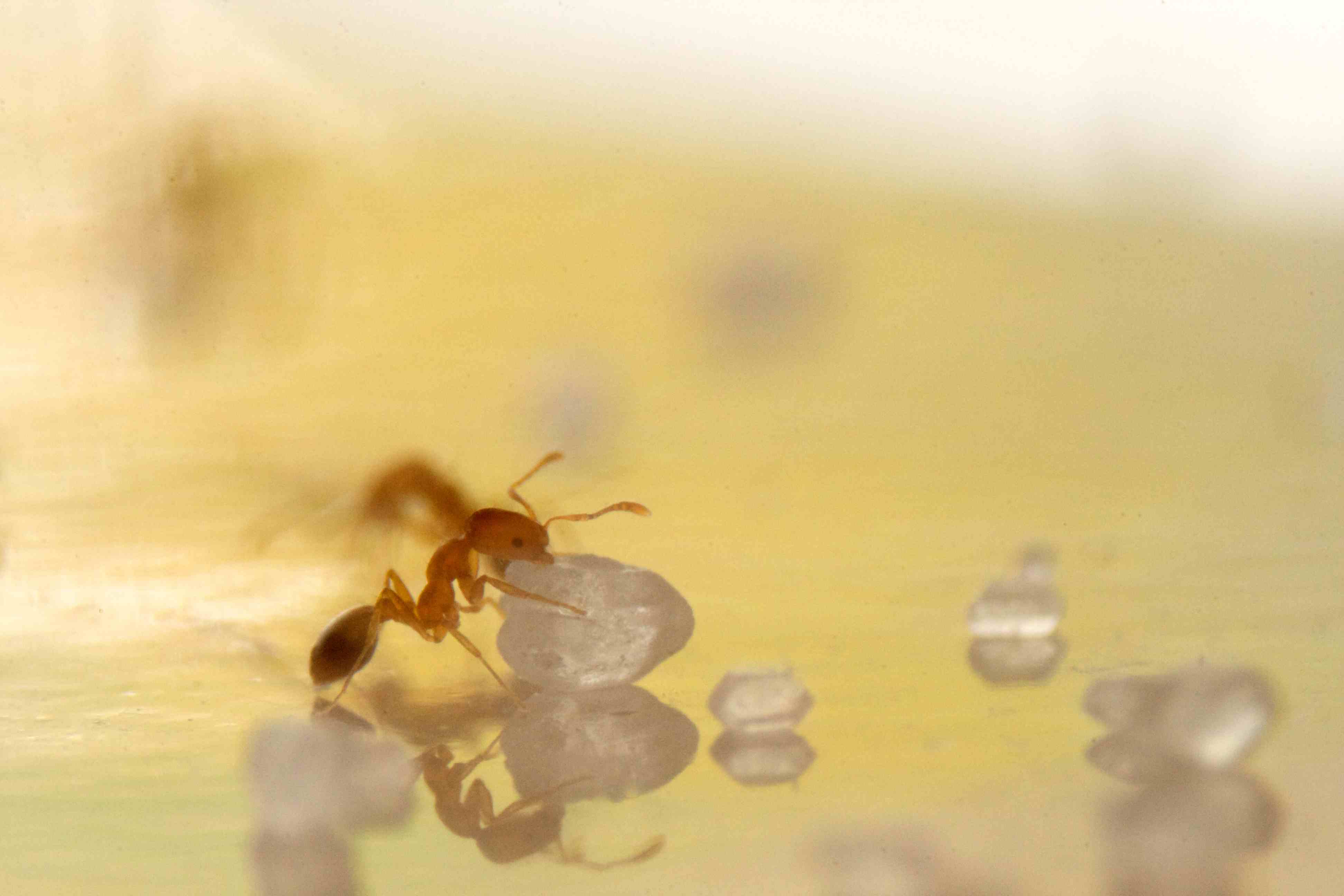 Pharaon ant with single crystal of sugar